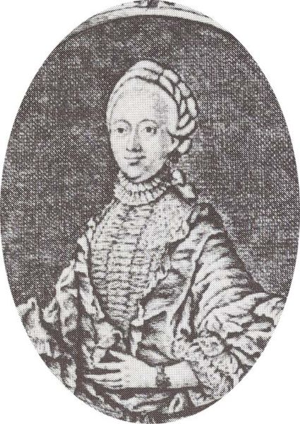 Princess Sophie Antoinette of Brunswick-Wolfenbüttel (1724-1802), duchess of Saxe-Coburg-Saalfeld